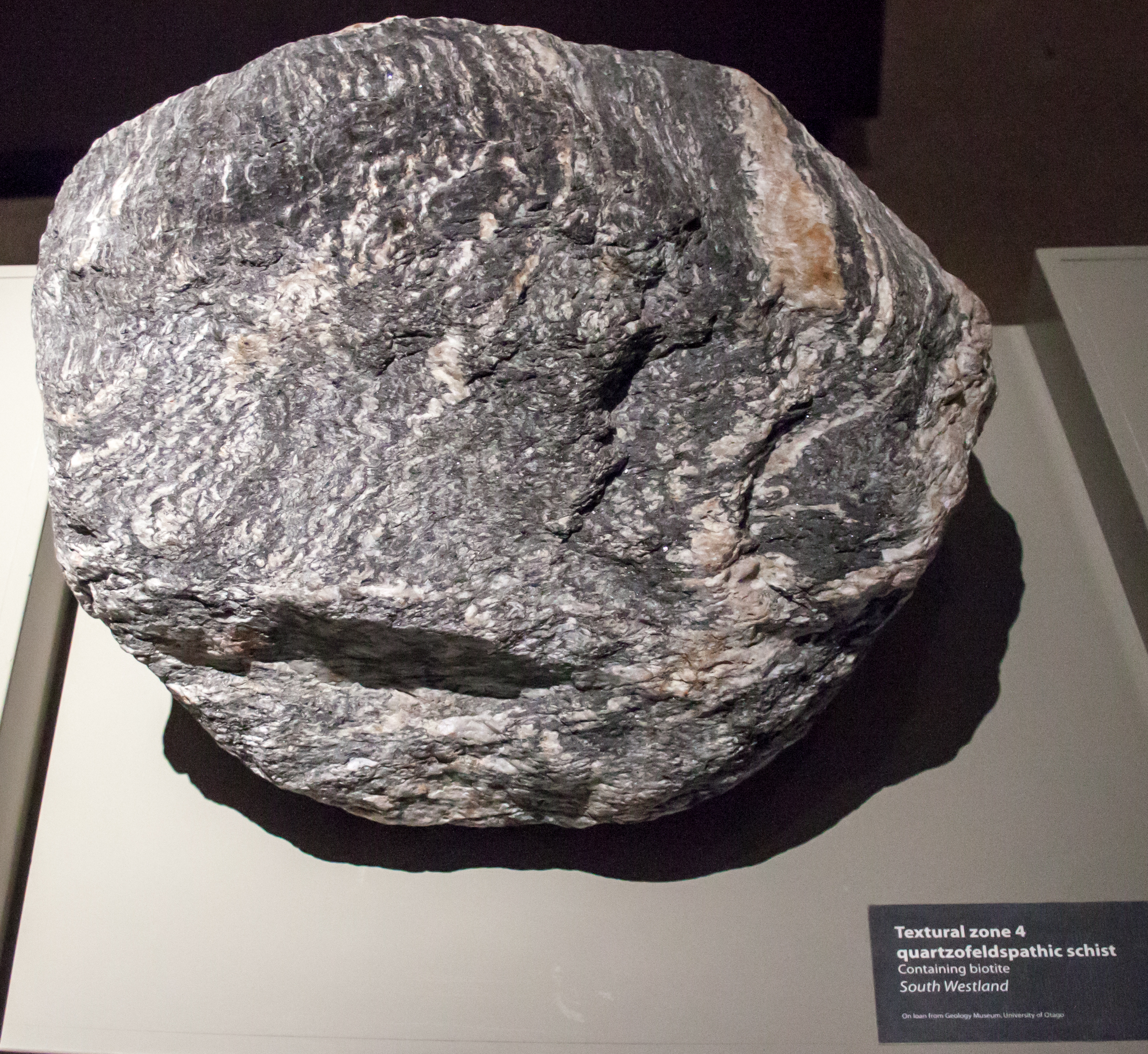 Textural zone 4 quartzofeldspathic schist, containing biotite, South Westland